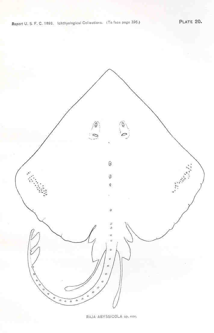 Raja Abyssicola sp.nov . Subject: Rays (Fishes) Tag: Fish